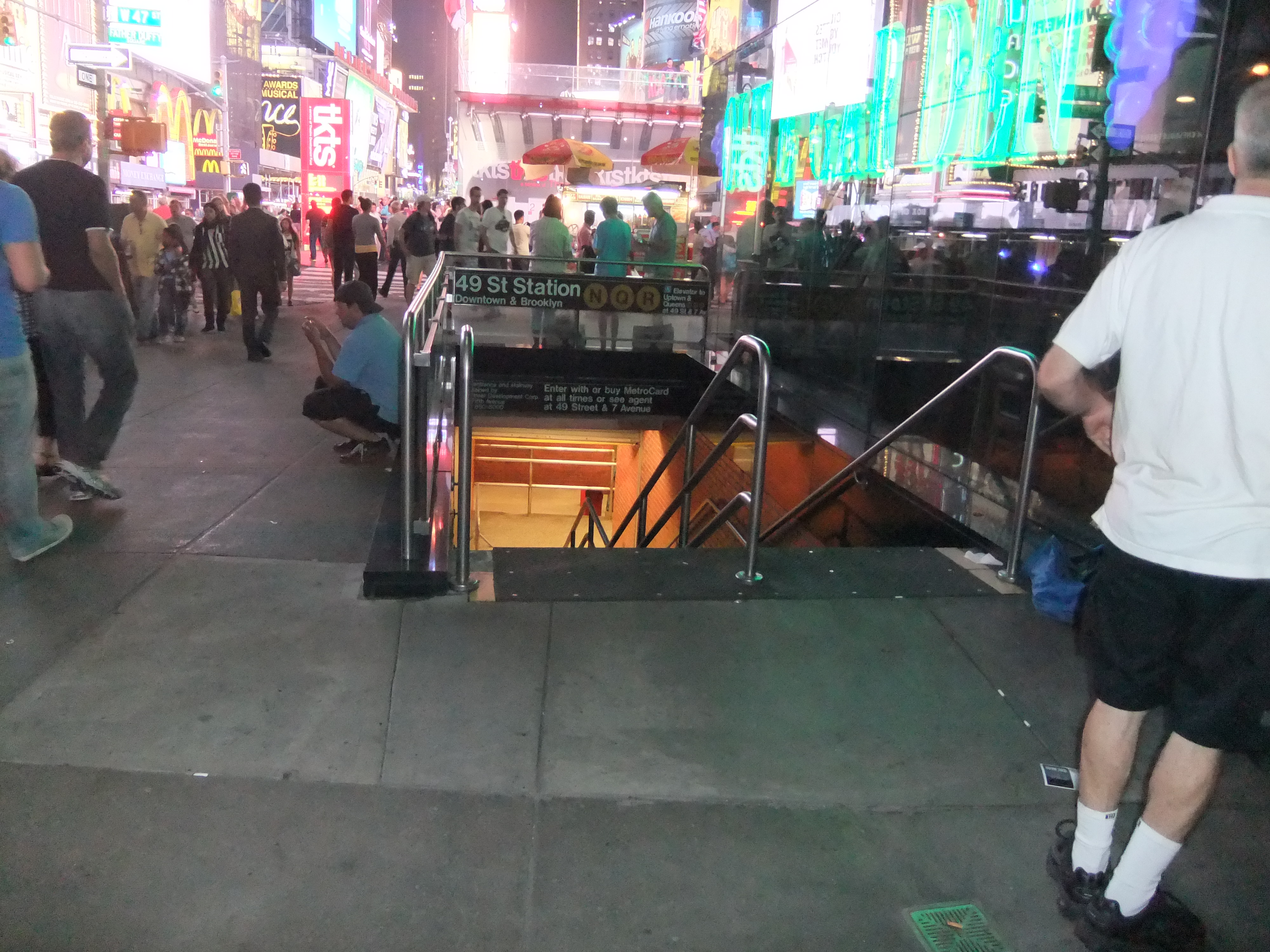 Entrance at TKTS booth to the 49th Street N/Q/R station.